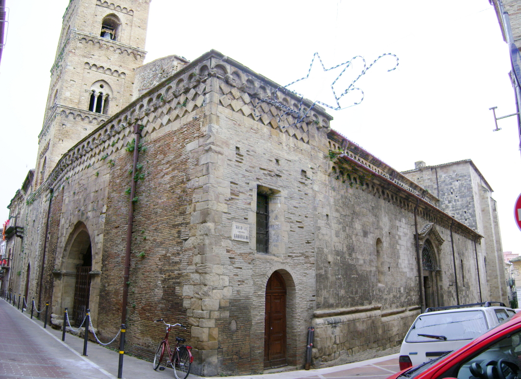 The church of Santa Maria Maggiore, Lanciano, province of Chieti, Abruzzo